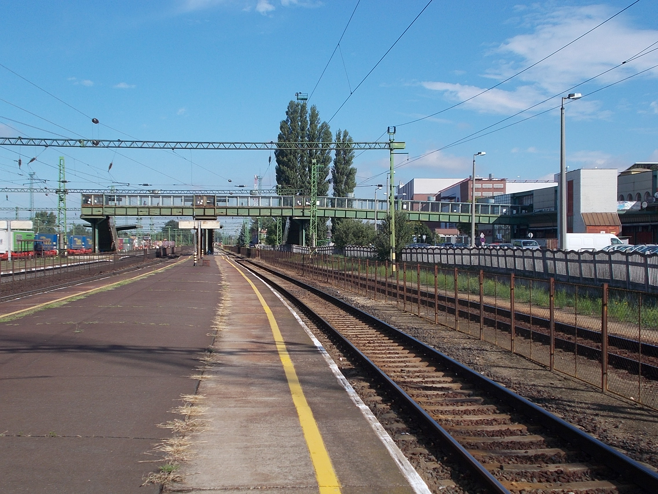 Footbridge over railway line, Tatabánya railway station. - Jedlik Street, Tatabánya, Komárom-Esztergom County, Hungary.